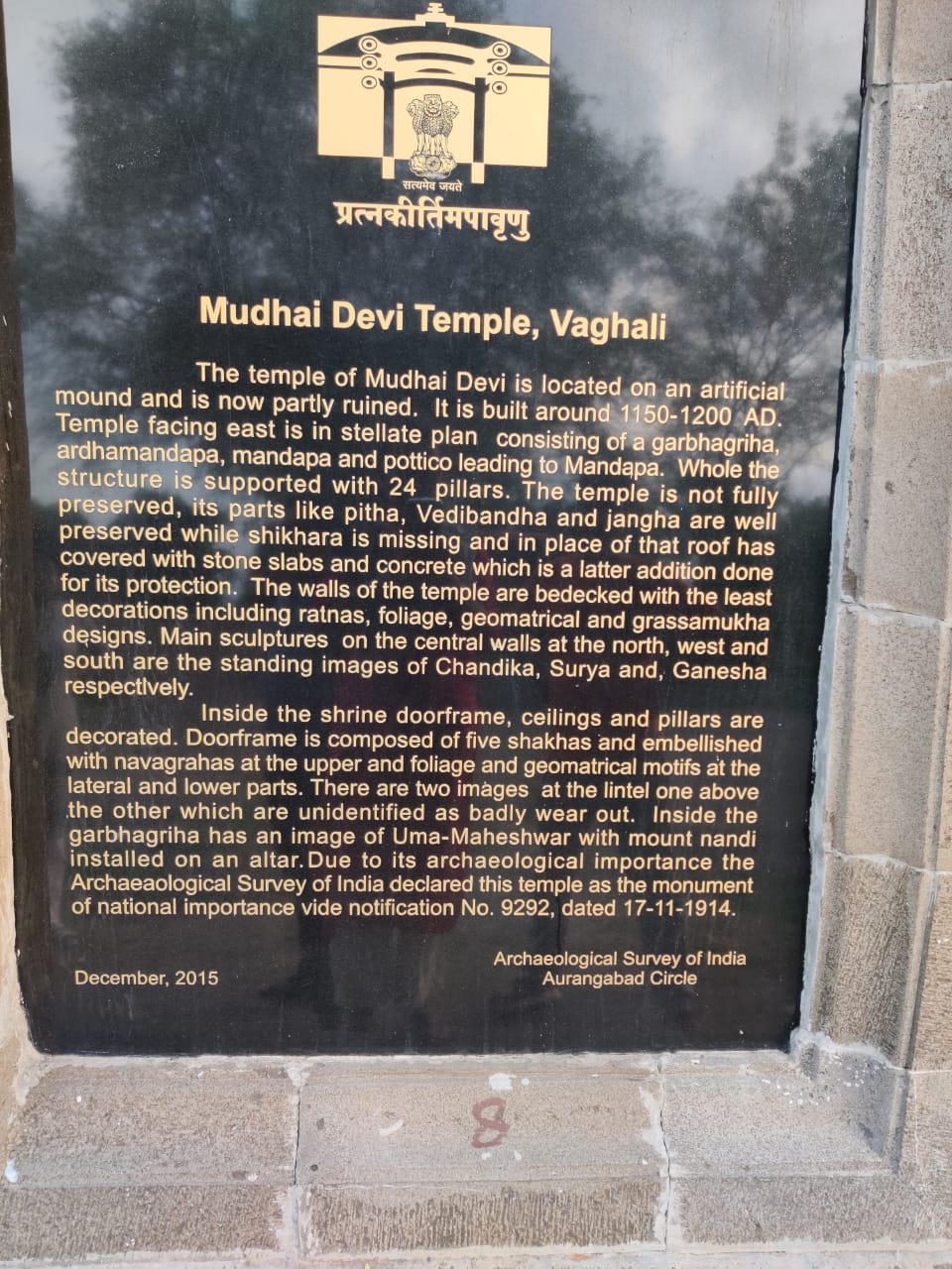 Due to its archaeological importance the Archaeological Survey of India declared this temple as a monument of national importance vide notification No. 9292, dated 17-Nov-1914.